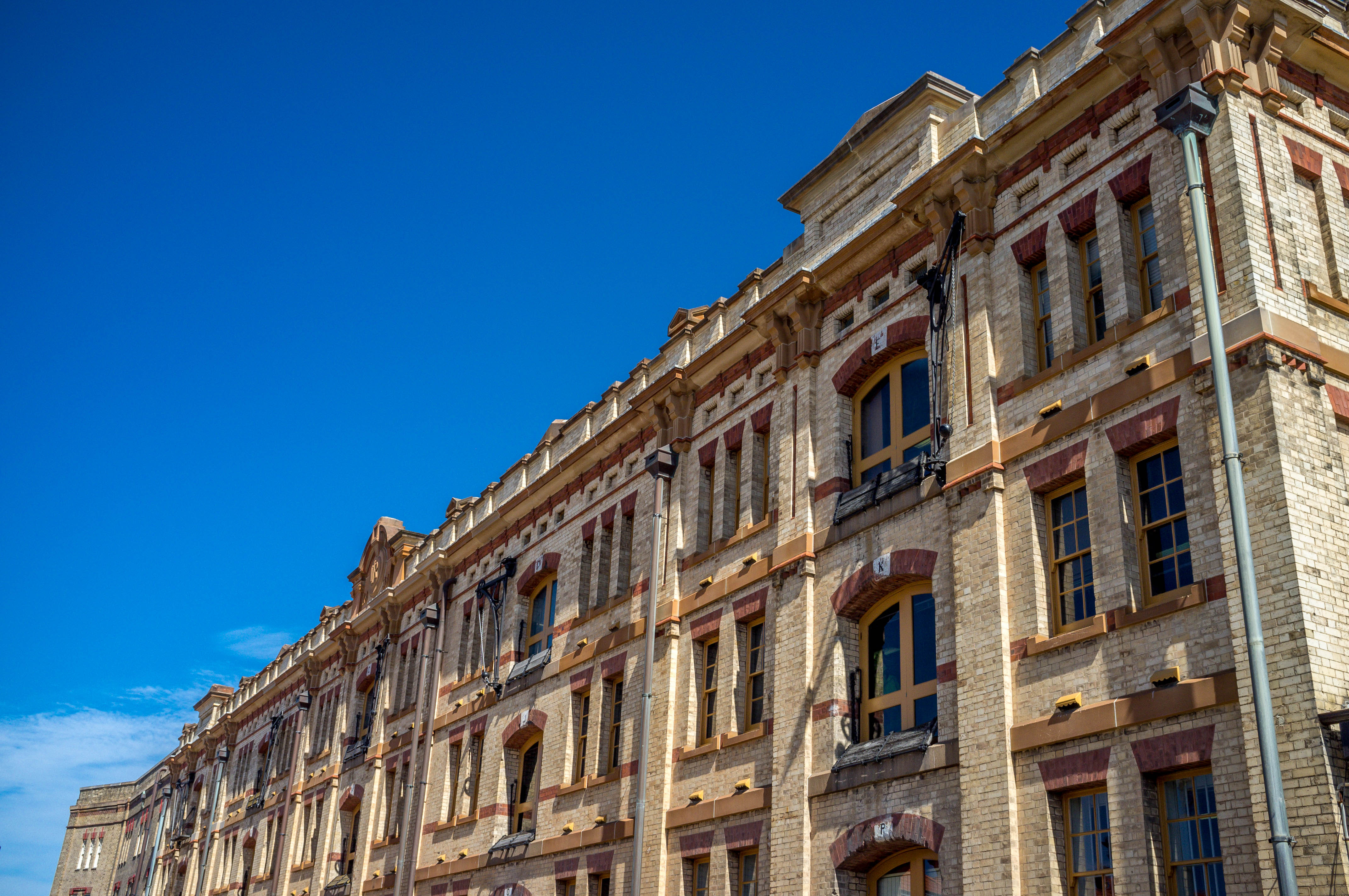 Garden Island Heritage Buildings